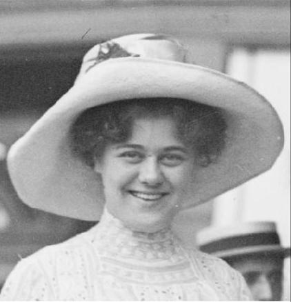 Actress